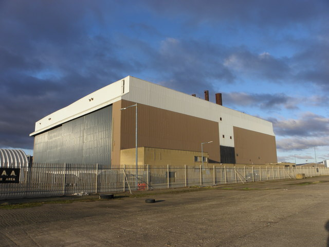 Paint Hall, Belfast docks